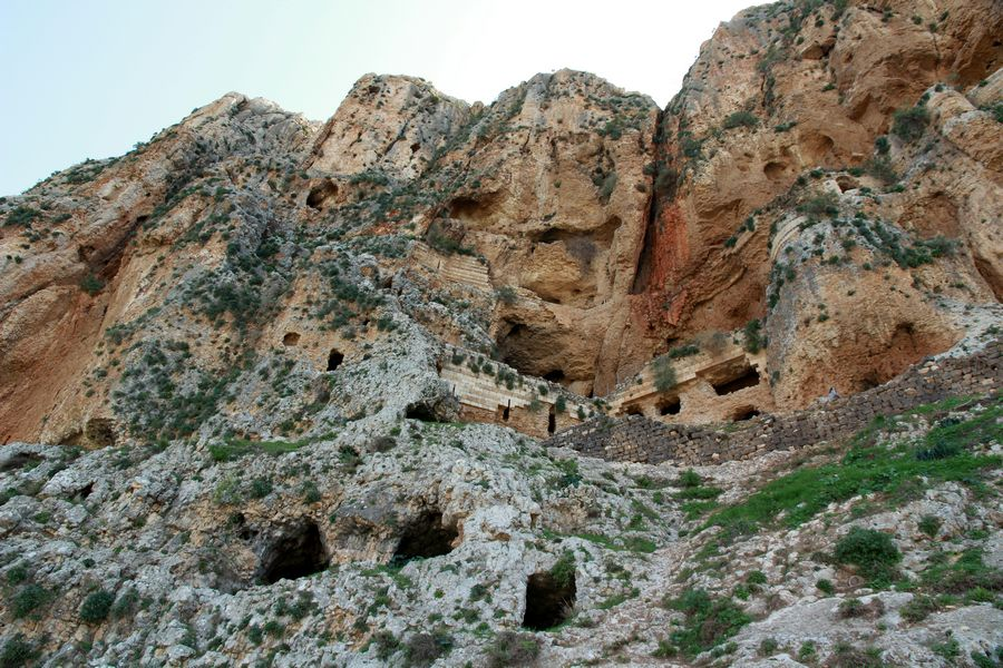 Nature and Colors